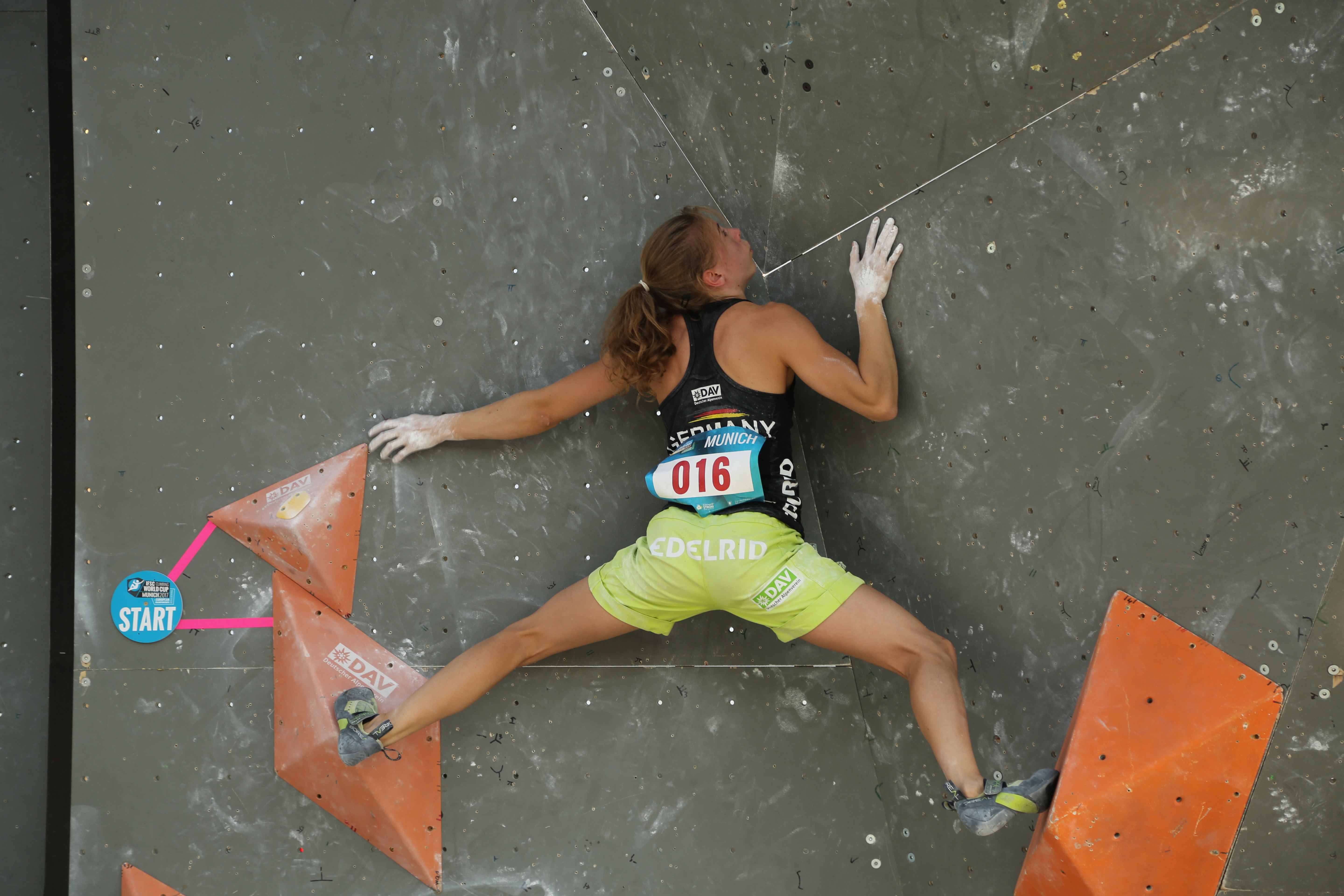 Alma Bestvater, GER, at the Boulder Worldcup 2017 in Munich, Germany